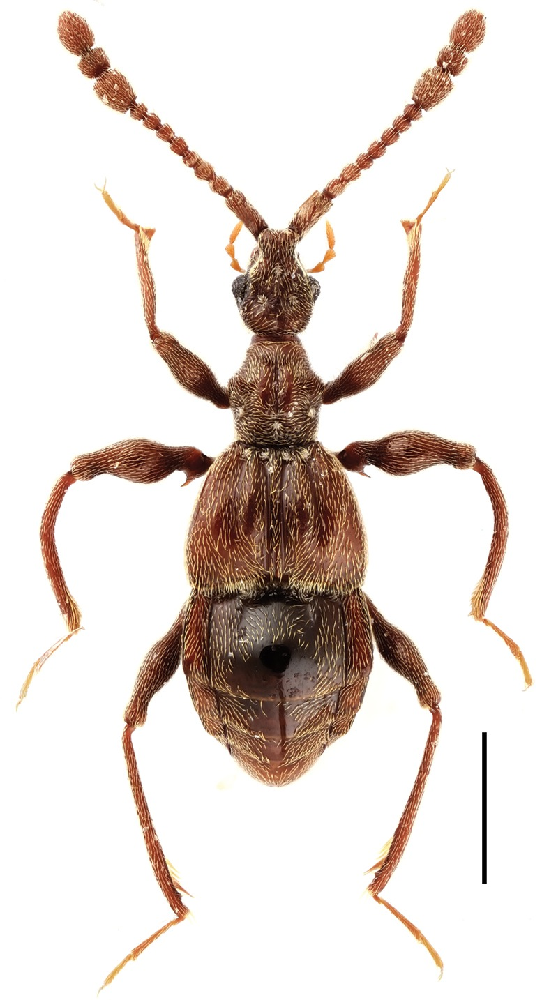 Male habitus of Labomimus fimbriatus. Scale: 1.0 mm.